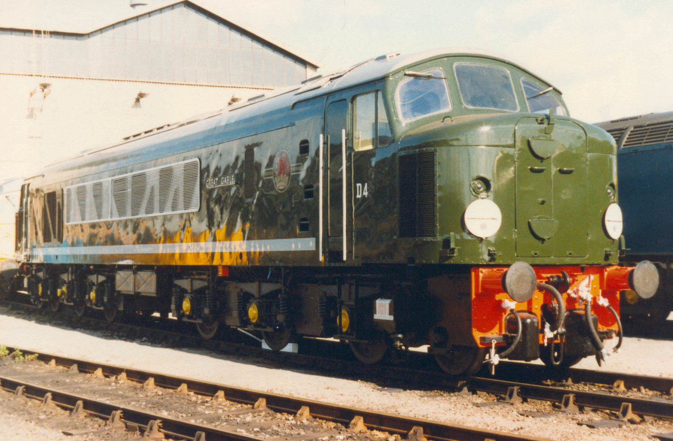 British Rail Class 44 number 44004 at Cardiff